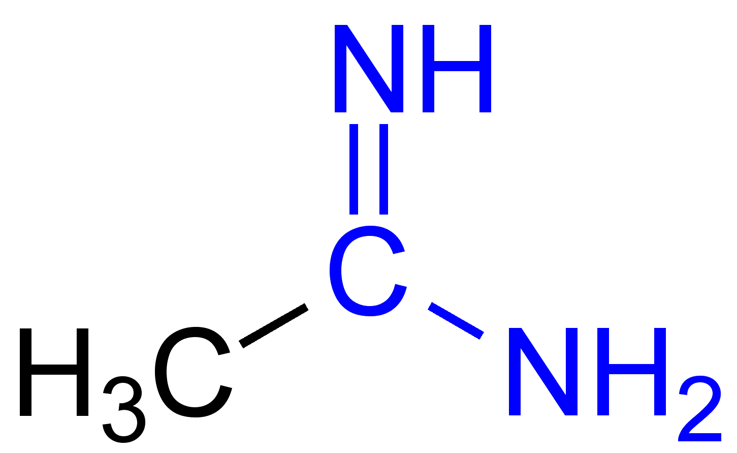 Acetamidine_Structural_Formulae